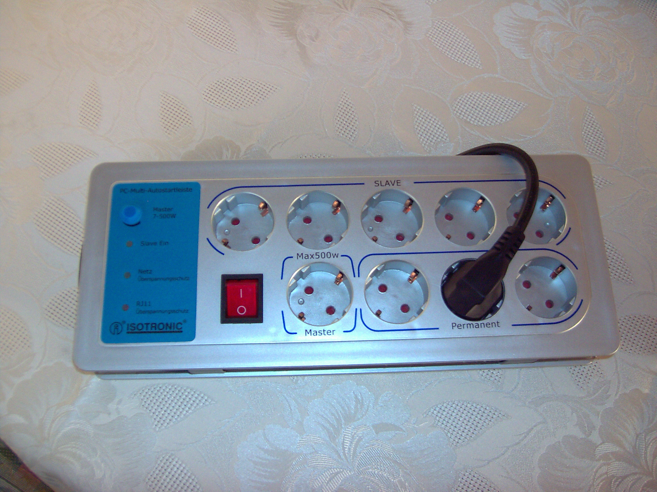 A Schuko-style power strip with illuminated main switch, three plugs and five slave plugs controlled through one master plug